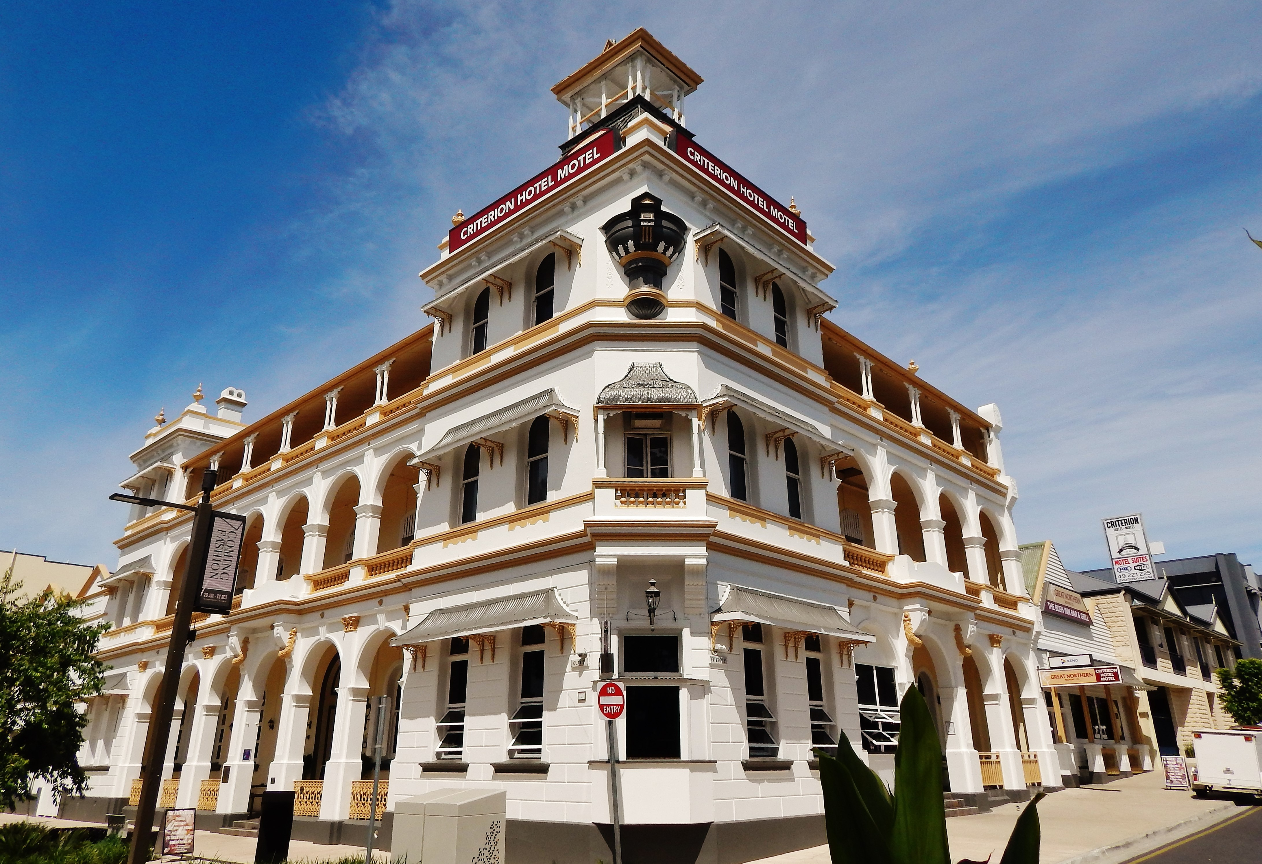 The Criterion Hotel, located on the riverfront in the regional Australian city of Rockhampton, Queensland